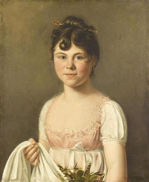 Portrait of Louise-Adéone Drölling as a child by her father, Martin Drolling